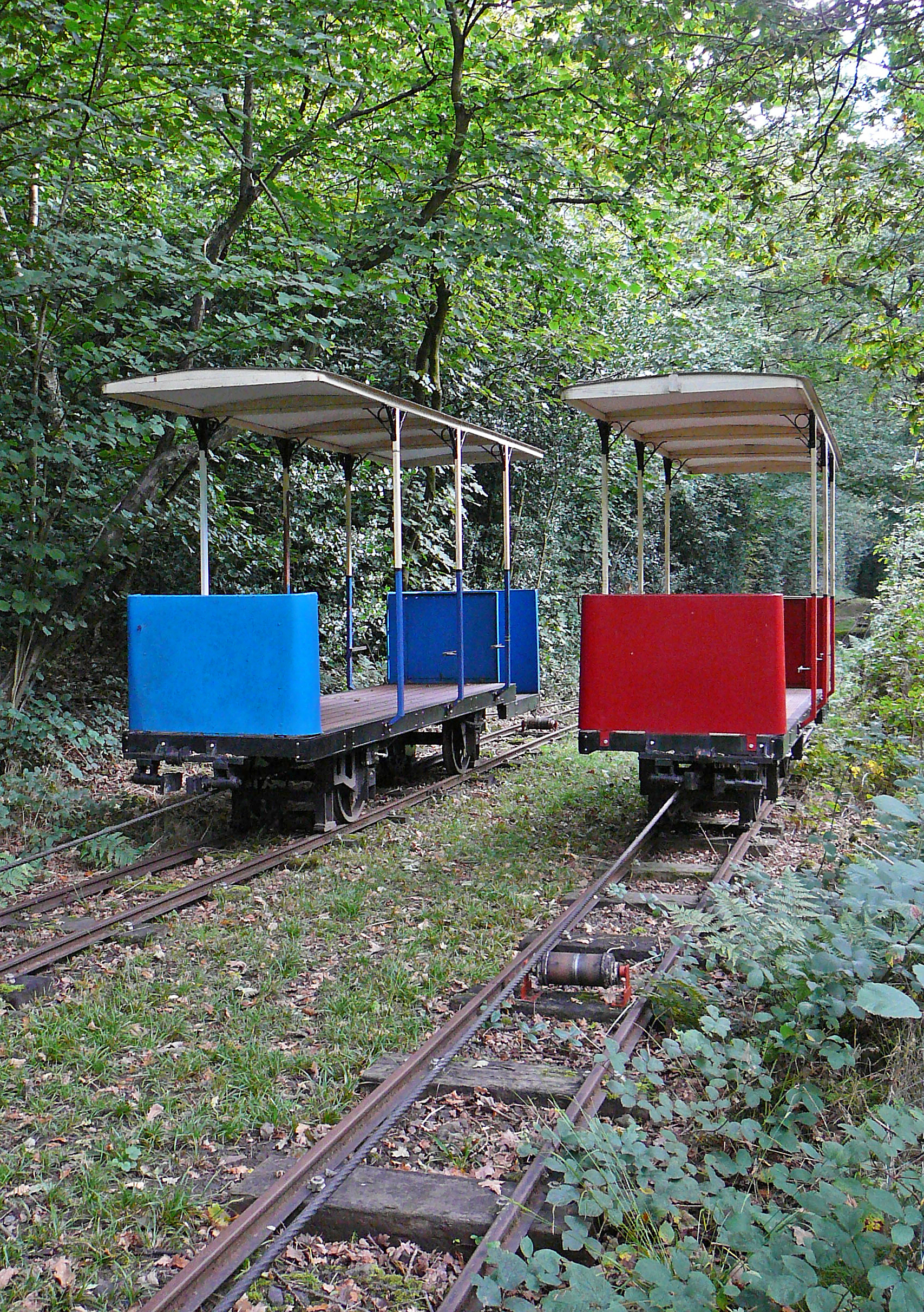 Two tram carriages of the Shipley Glen Tramway in Shipley, Bradford, West Yorkshire. Taken on Saturday the 25th of September 2010.